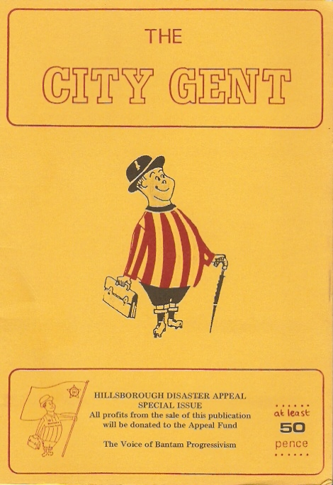 The City gent Fanzine Cover